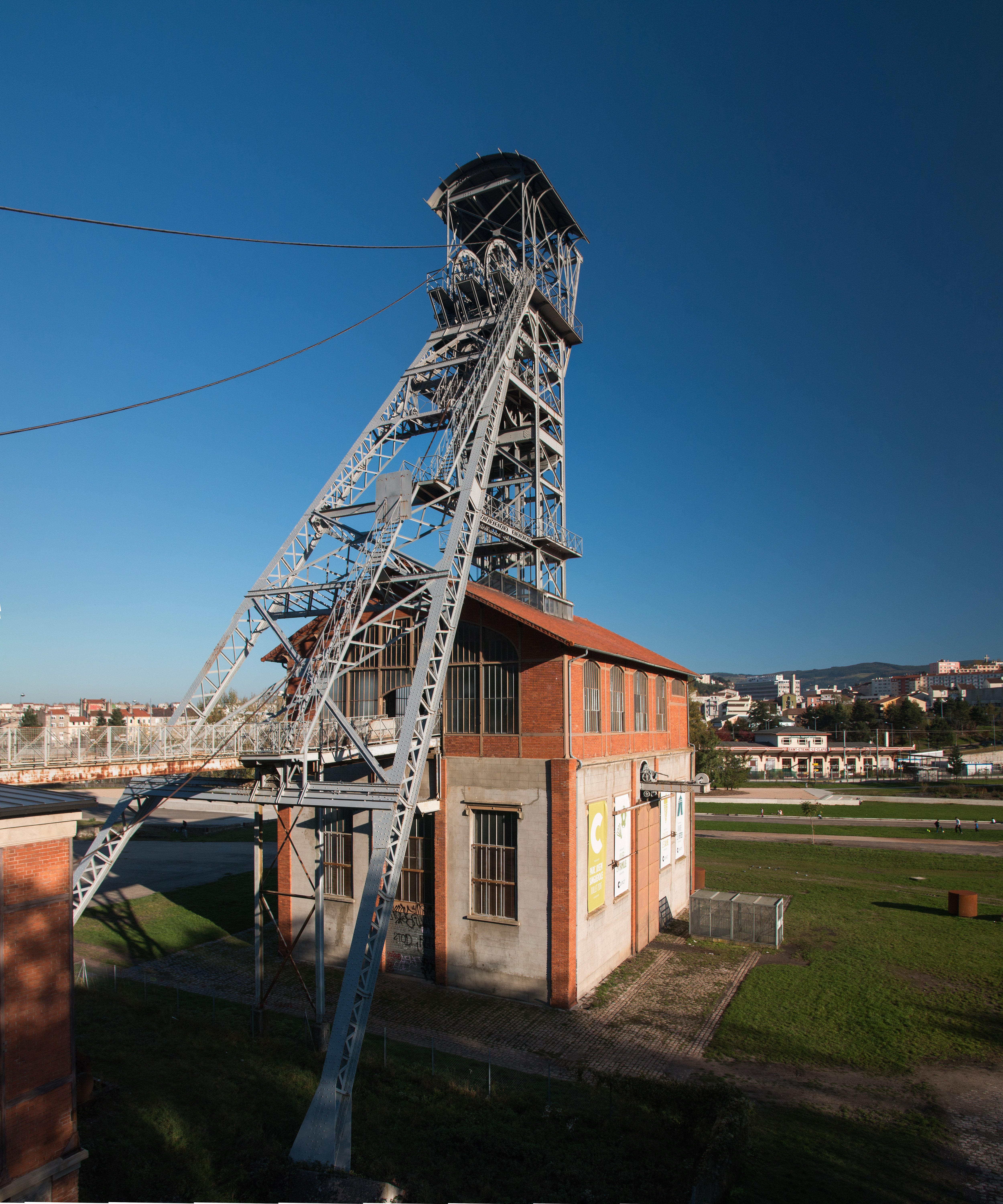 Winding towers of the pit Couriot, seen fron the access bridge to the elevator shafts.